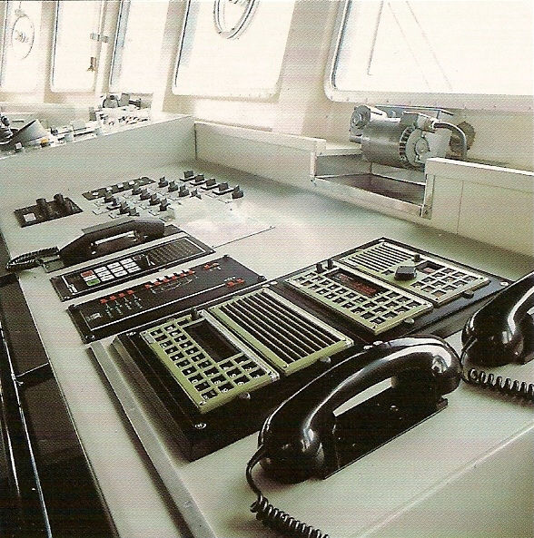 Marine radio transceiver